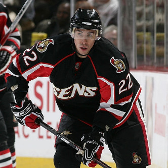 Chris Kelly during hi 300th NHL game in Ottawa